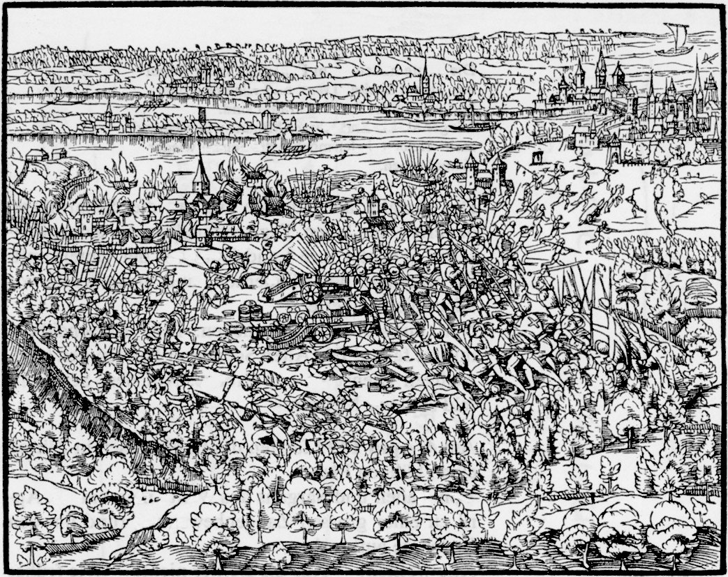 Depiction of the battle of Schwaderloh, one of the battles of the Swabian War